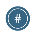 Round icon for hashtag/number sign/pound sign/hash/crosshatch/octothorpe (Unicode glyph U+0023)